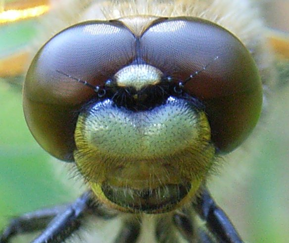 Head of Libellula quadrimaculata, Southern Germany 700 m